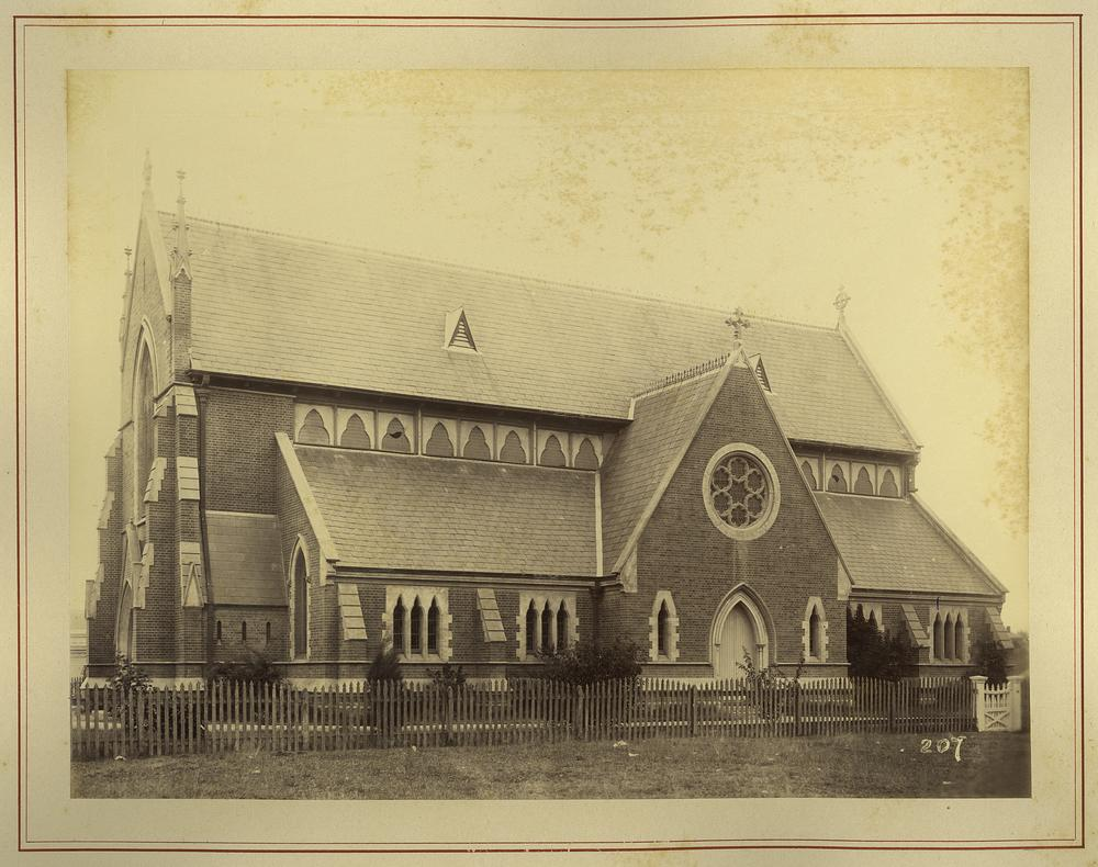 Holy Trinity Church in Fortitude Valley, Brisbane Holy Trinity Church was opened in June 1877, replacing a smaller rough stone church built in 1857.